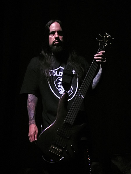 Reginald "Fieldy" Arvizu form Korn band